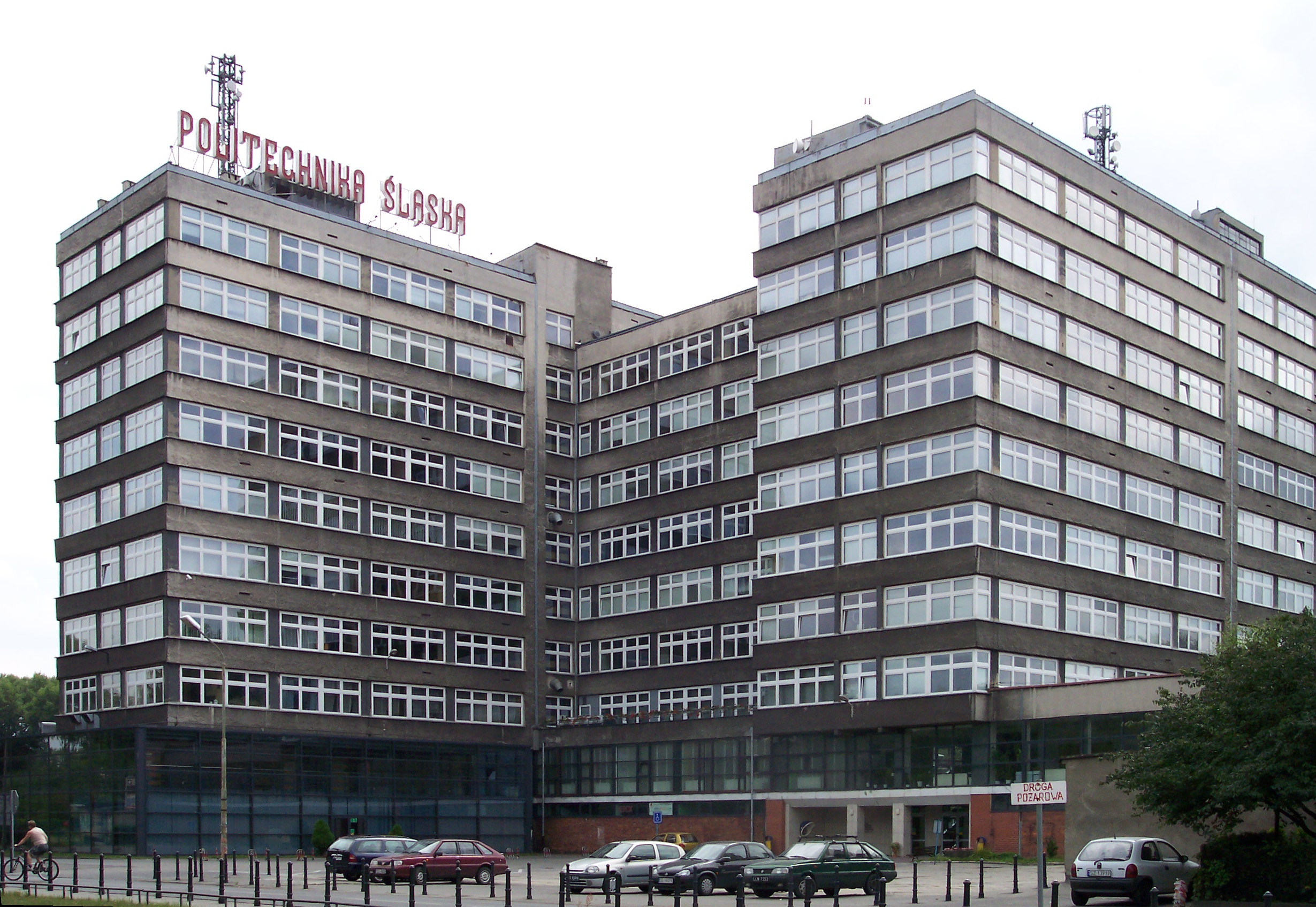 Silesian University of Technology - Faculty of Automatic Control, Electronics and Computer Science